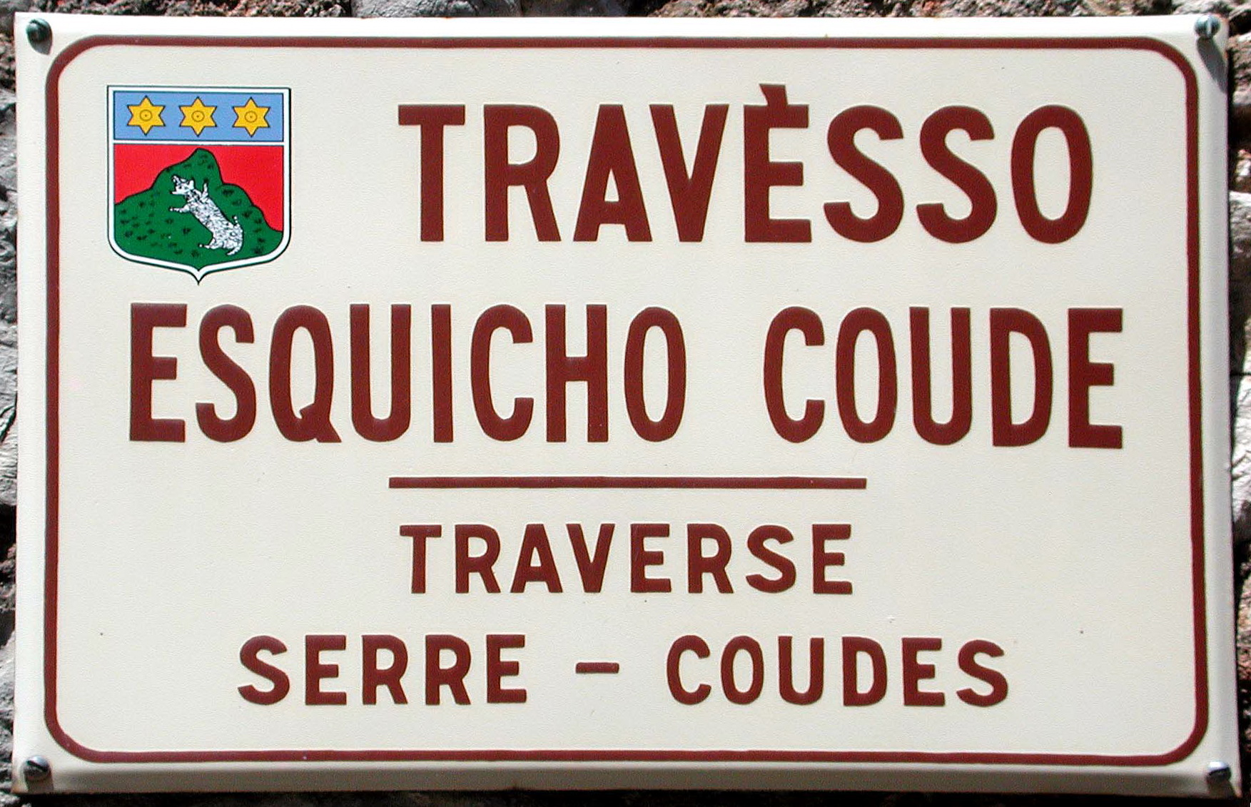 Var(Mons) Provençal street signs